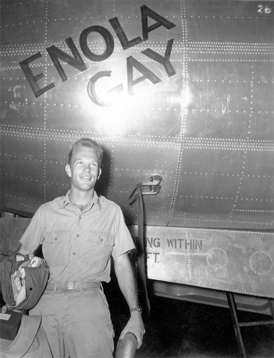 released USAF